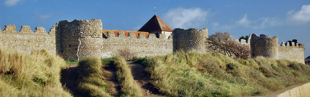 Portchester Castle, ancient roman wall